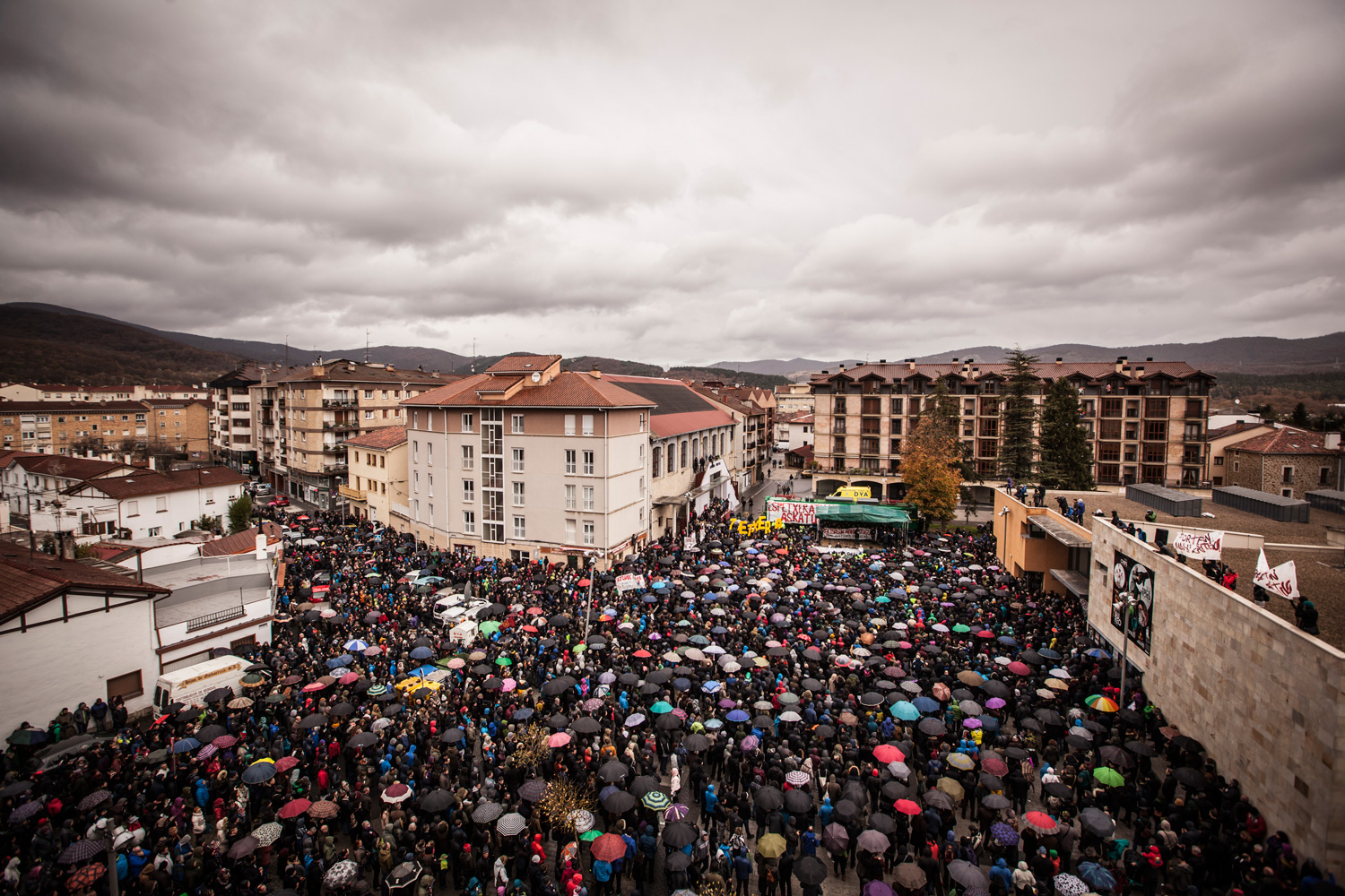 Demonstration in support of young Altsasu residents arrested